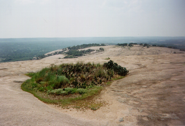 Vernal pool at the top of Enchanted Rock, Texas. Taken 1998.